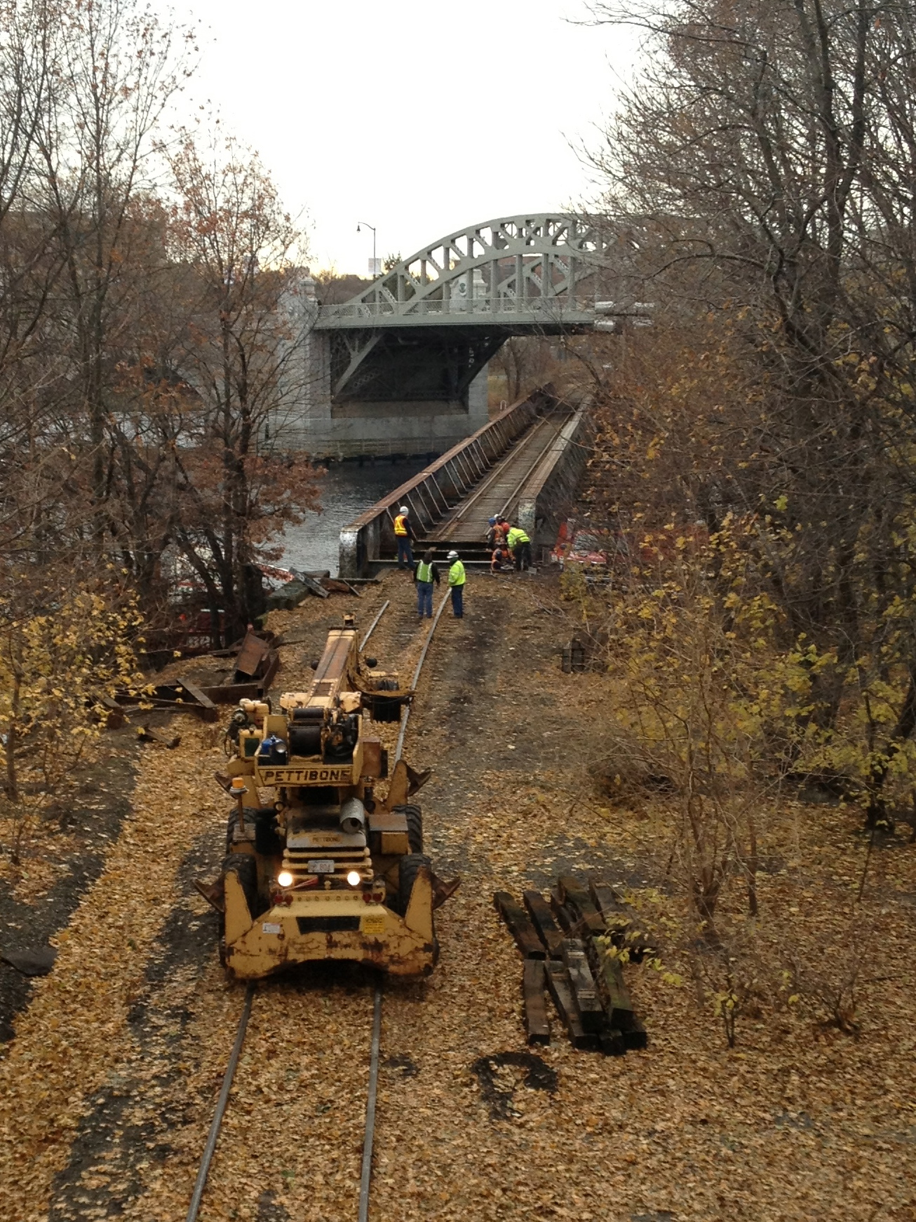 Repairs underway to the Grand Junction Railroad Bridge after it was closed due to structural problems.